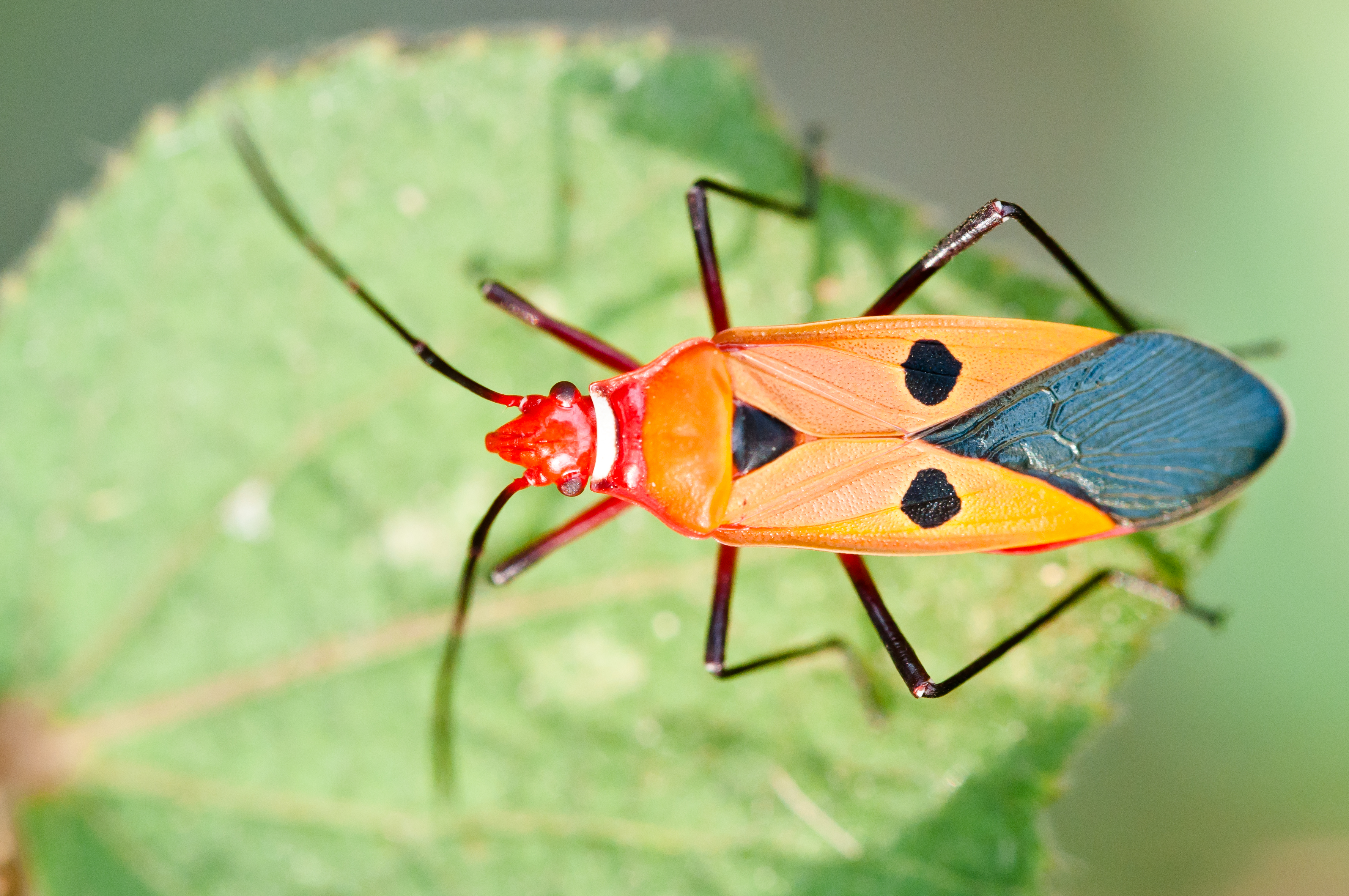 Dysdercus Cingulatus-Fabricius, Red cotton stainer bug - Kaeng Krachan National Park. Photo by Rushenb